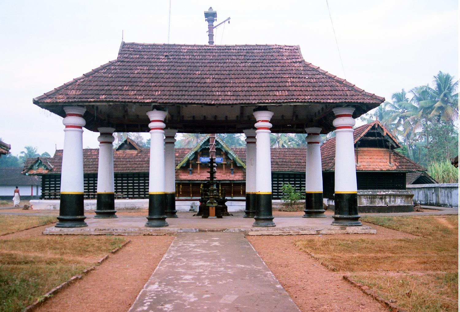 Vinod. N., Self taken snap of the temple. I am a post-doctoral fellow in Bangalore. I have contributed may pages to Wikipedia Vinod. N., Self taken snap of the temple. I am a post-doctoral fellow in Bangalore. I have contributed may pages to Wikipedia